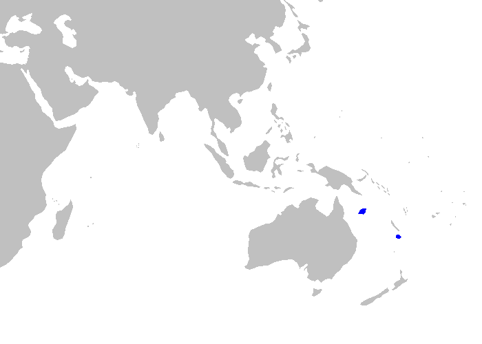 Distribution map for Etmopterus dianthus